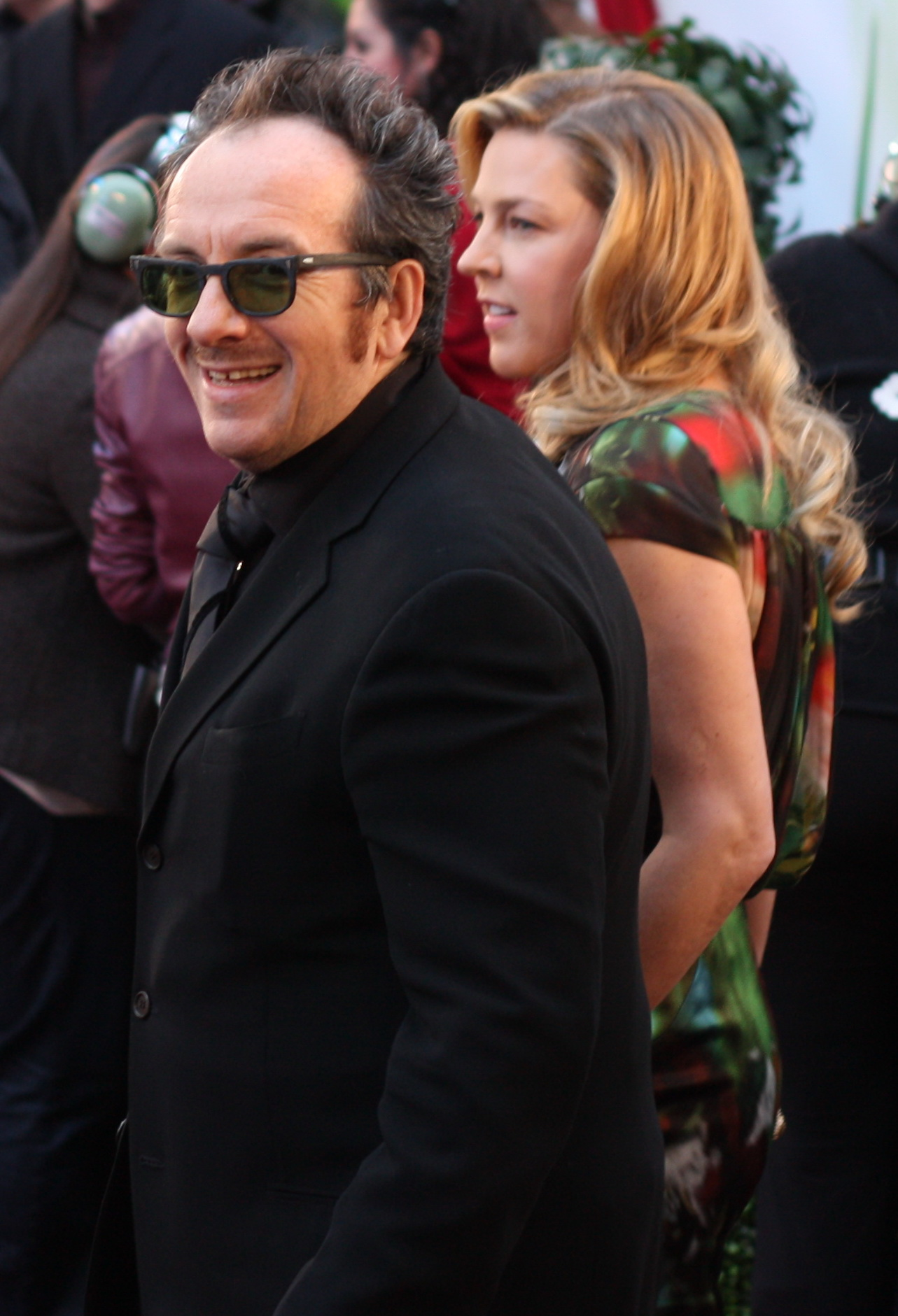 Elvis Costello and Diana Krall on the red carpet at the 2009 Juno Awards in Vancouver, British Columbia, Canada.